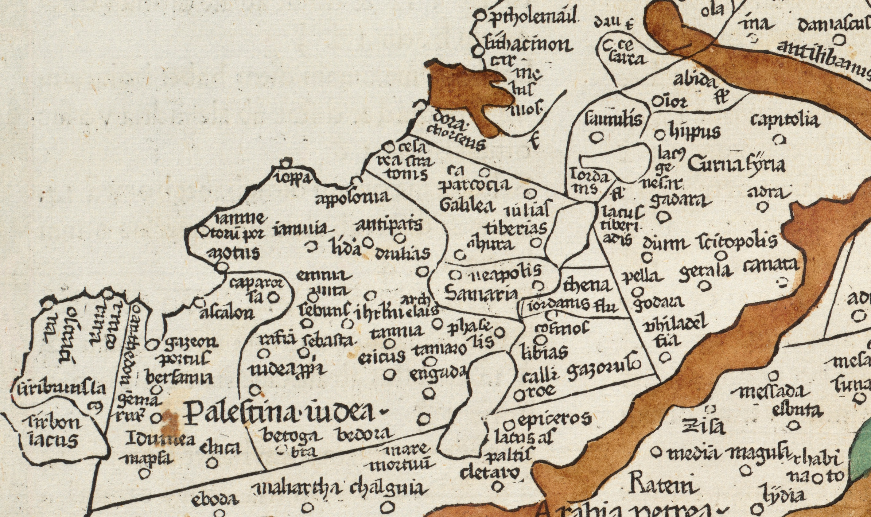 Published in Claudius Ptolemy, Cosmographia. Translated by Jacobus Angelis. Edited by Nicolaus Germanus. Ulm: Lienhart Holle, 1482, folio 115-116. Include: Asia, Cyprus, Iran, Judea, Mesopotamia, Middle East, Syria.